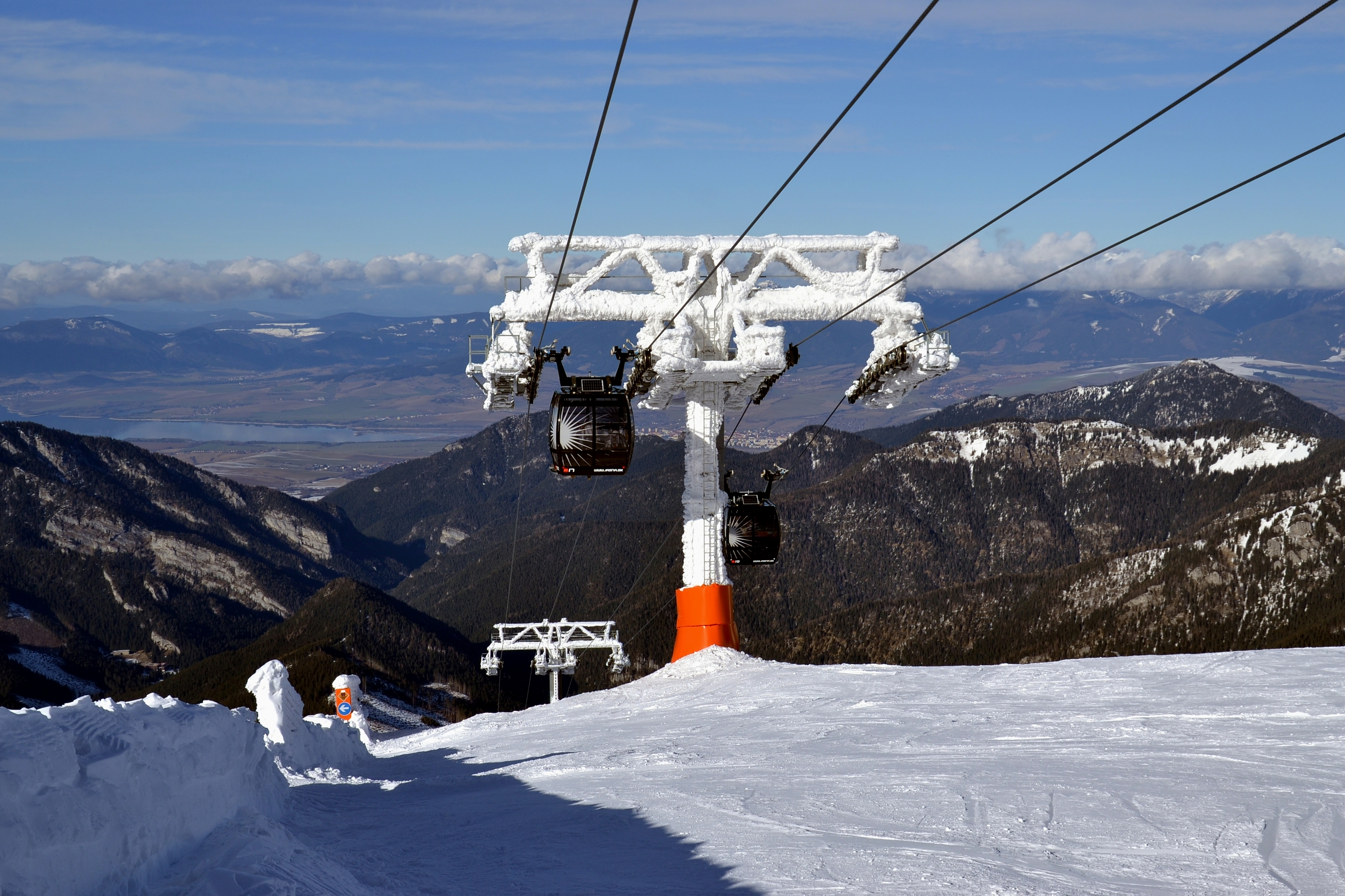 Jasná Ski Resort - gondola lift to Chopok